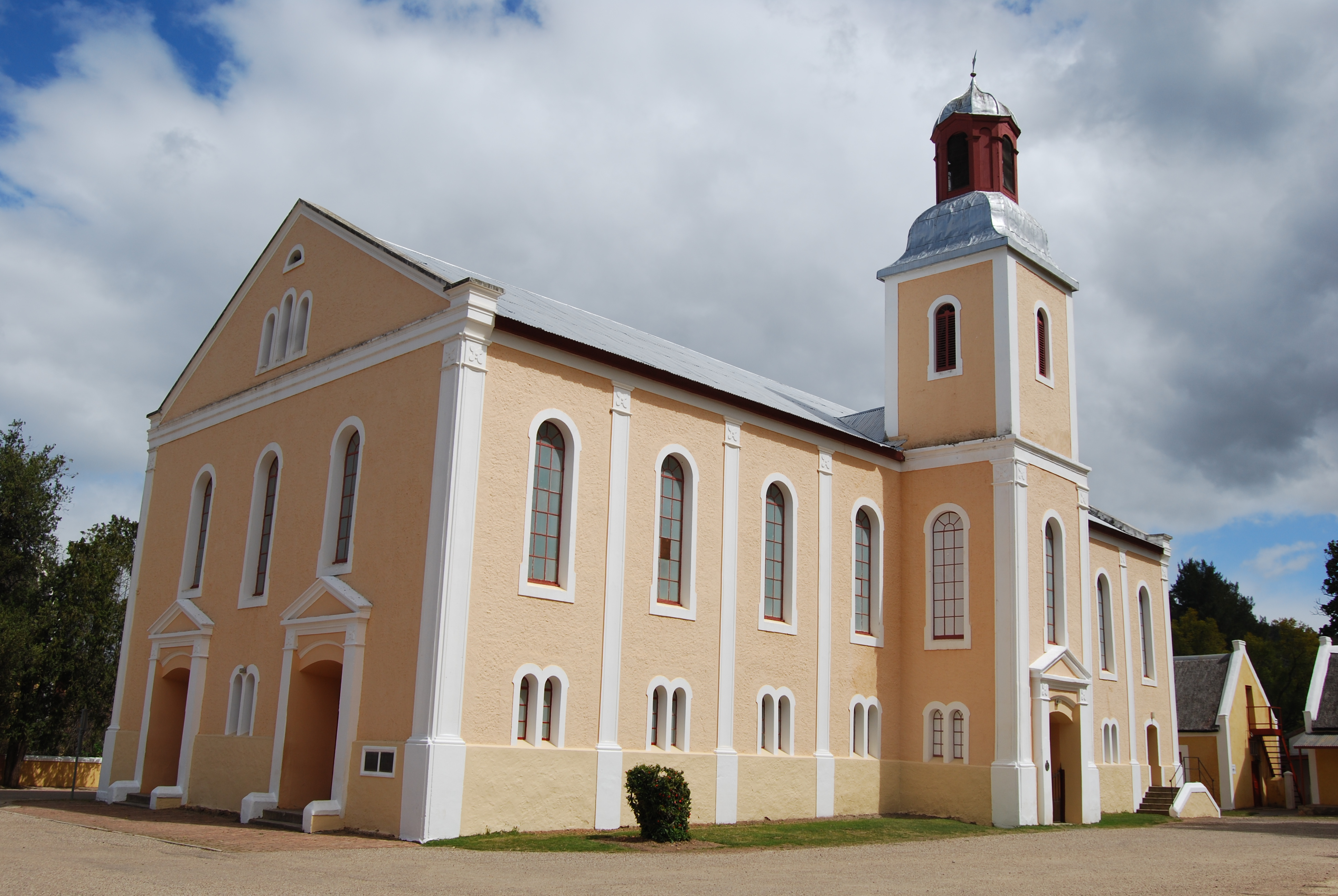 This media shows a South African Protected Site with SAHRA file reference 9/2/015/0010.